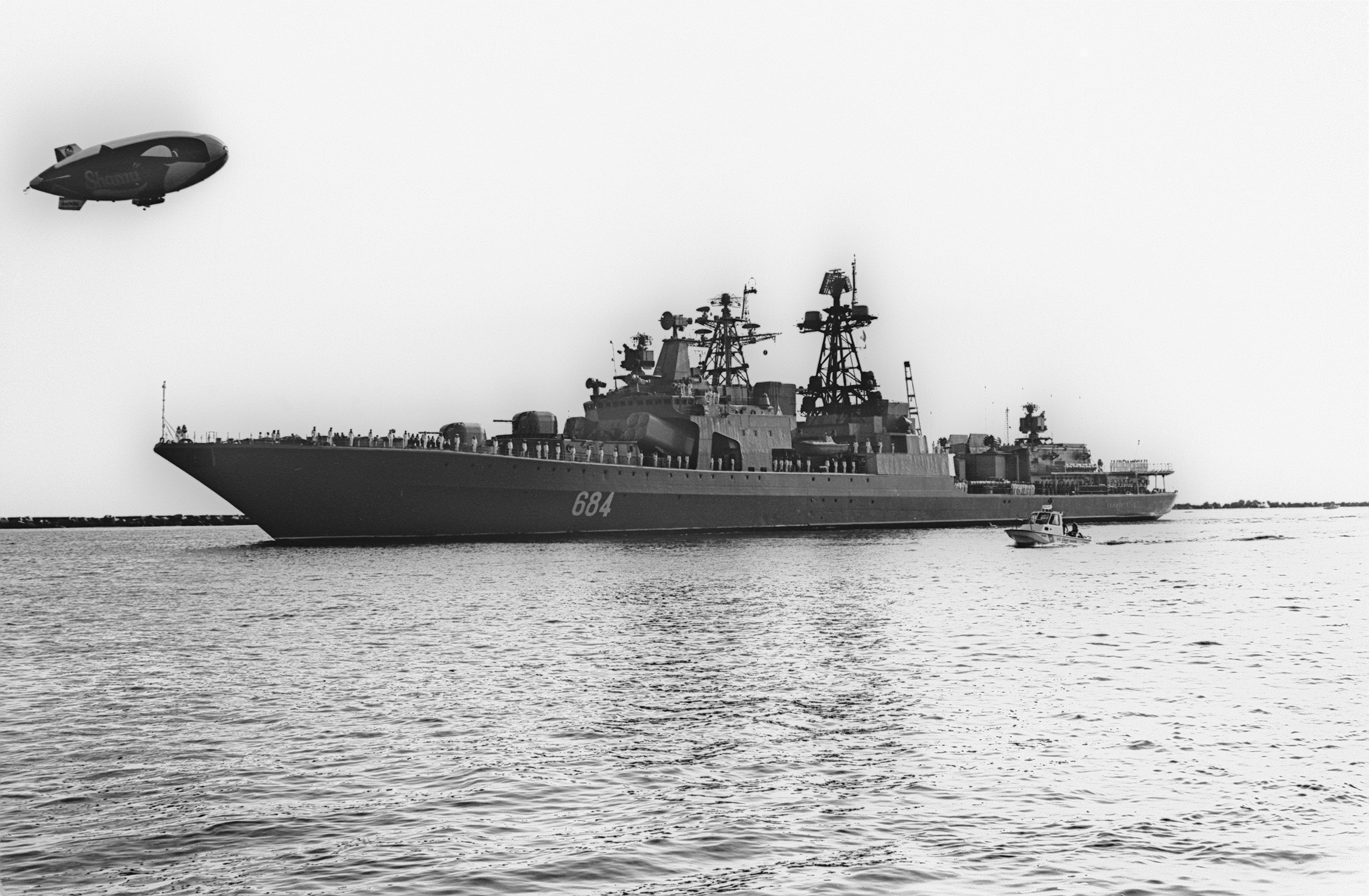 The Sea World airship flies overhead in welcome as the Soviet Udaloy class guided missile destroyer Simferopol arrives at Mayport for a goodwill visit.